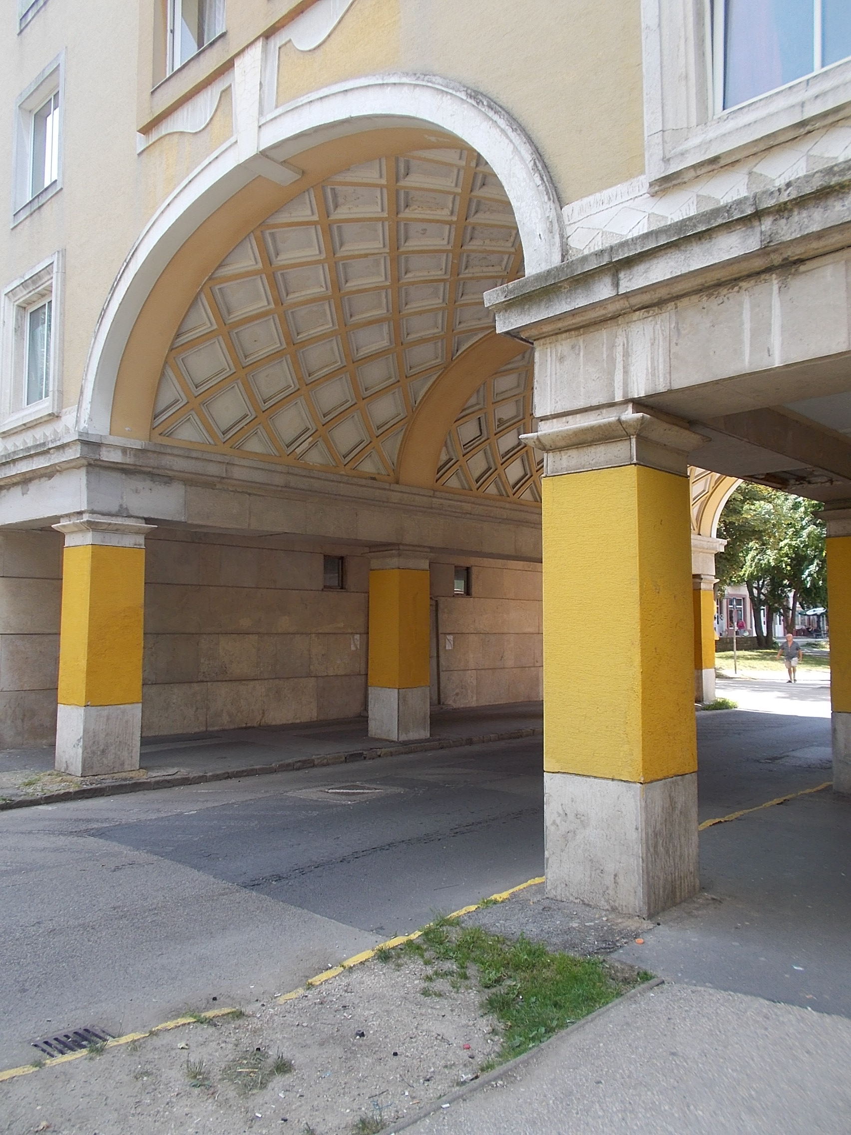 Citygate workers hostel?, former library, part of Fürst Sándor street listed complex. - Fürst Sándor street, Oroszlány, Komárom-Esztergom County.